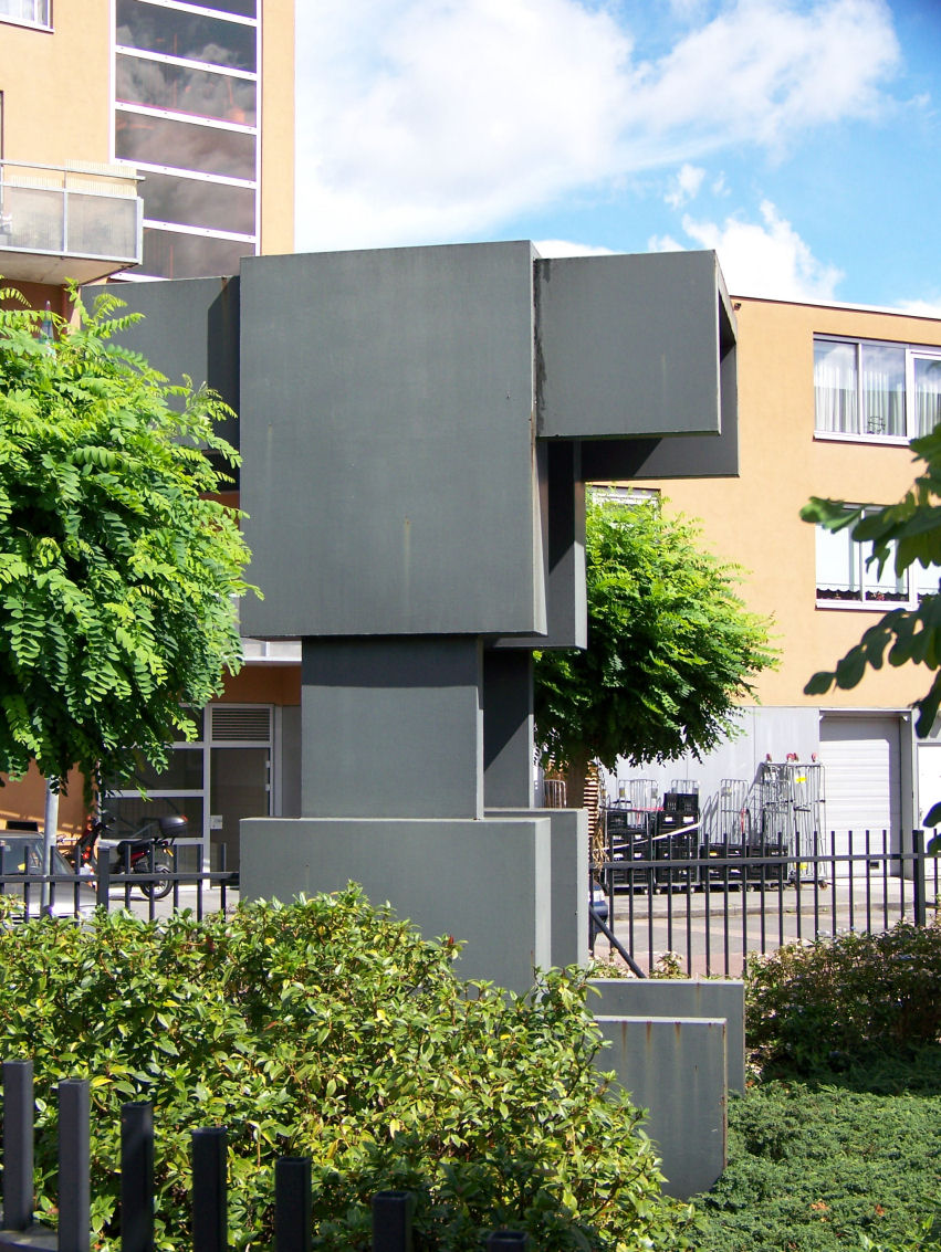 Sculpture "The Gate" by Carel Visser (1969) in Groningen, Netherlands.